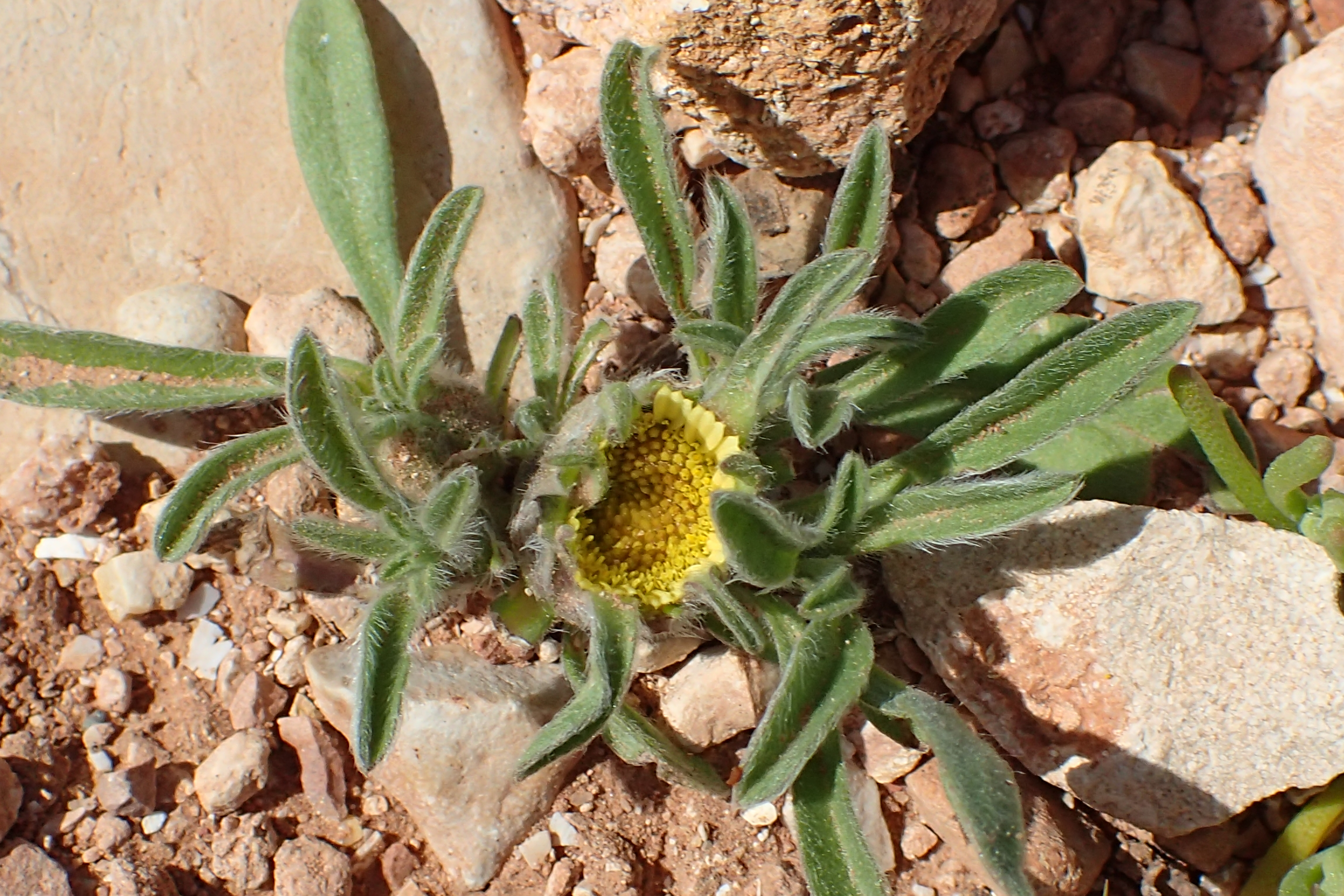 Pallenis hierochuntica in Saidate (Marrakesh-Safi, Morocco)